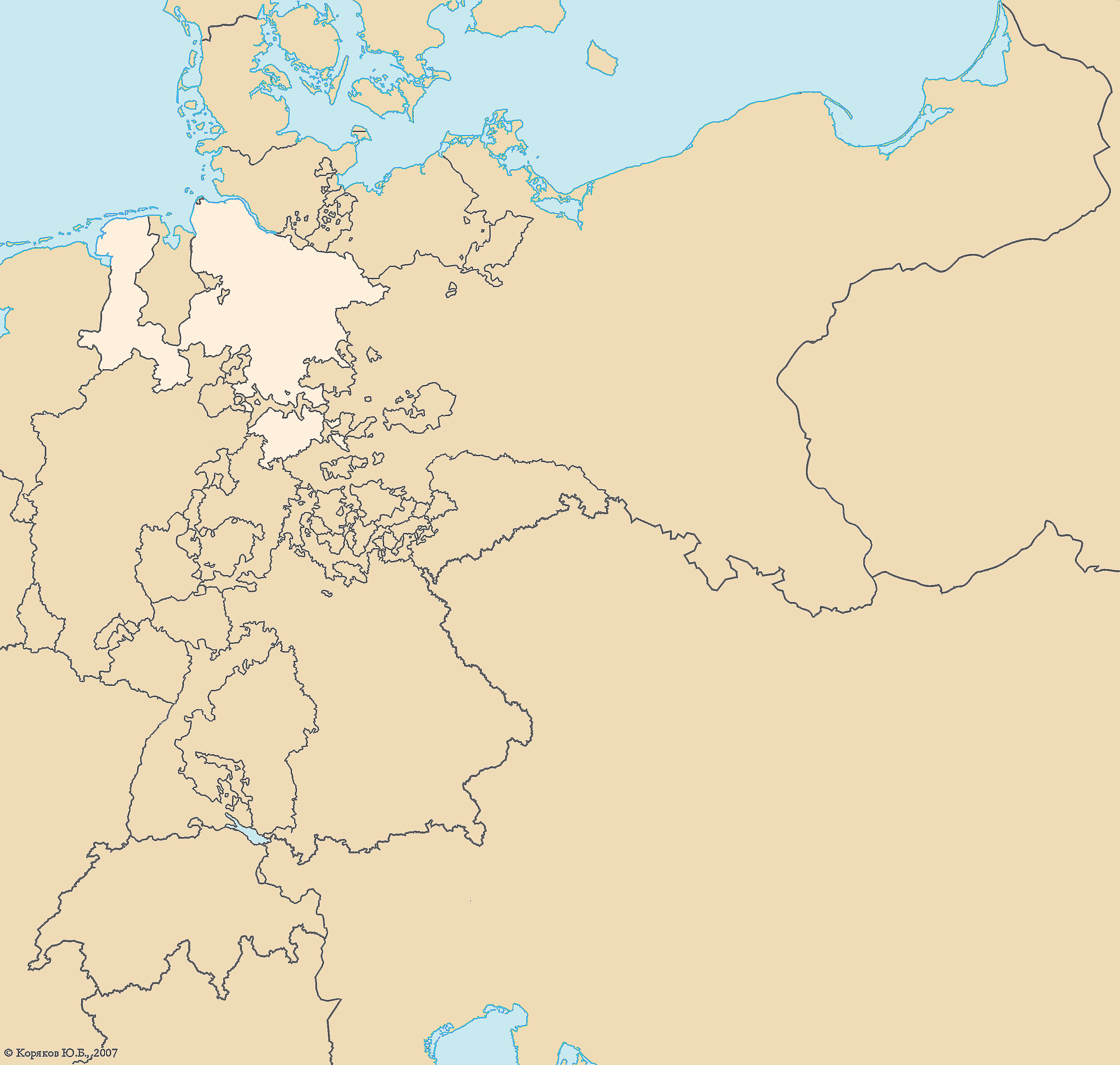 The Kingdom of Hannover before Austro-Prussian War in 1866.